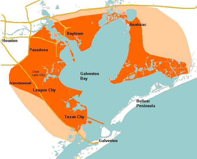 Map of the Galveston Bay area highlighting the core areas and the outlying areas. Author: Miguel R. Corazao (using reference image by Galveston Bay Estuary Program at Created 3 Sept. 2009